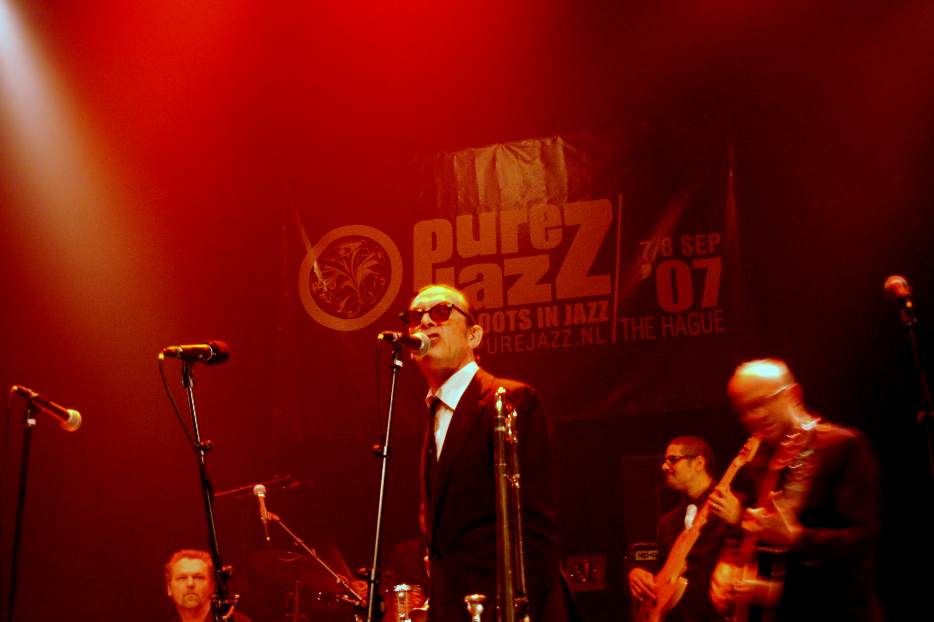 Jules Deelder en New Cool Collective in 2007.